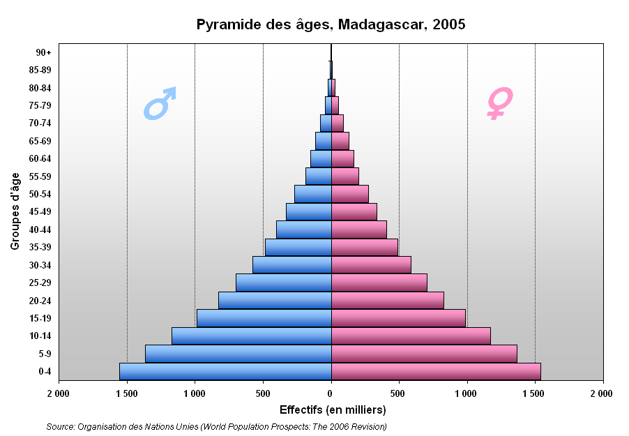 Madagascar Population pyramid, 2005 Malagasy: Rirakitson'ny taon'ny mponina, Madagasikara, 2005